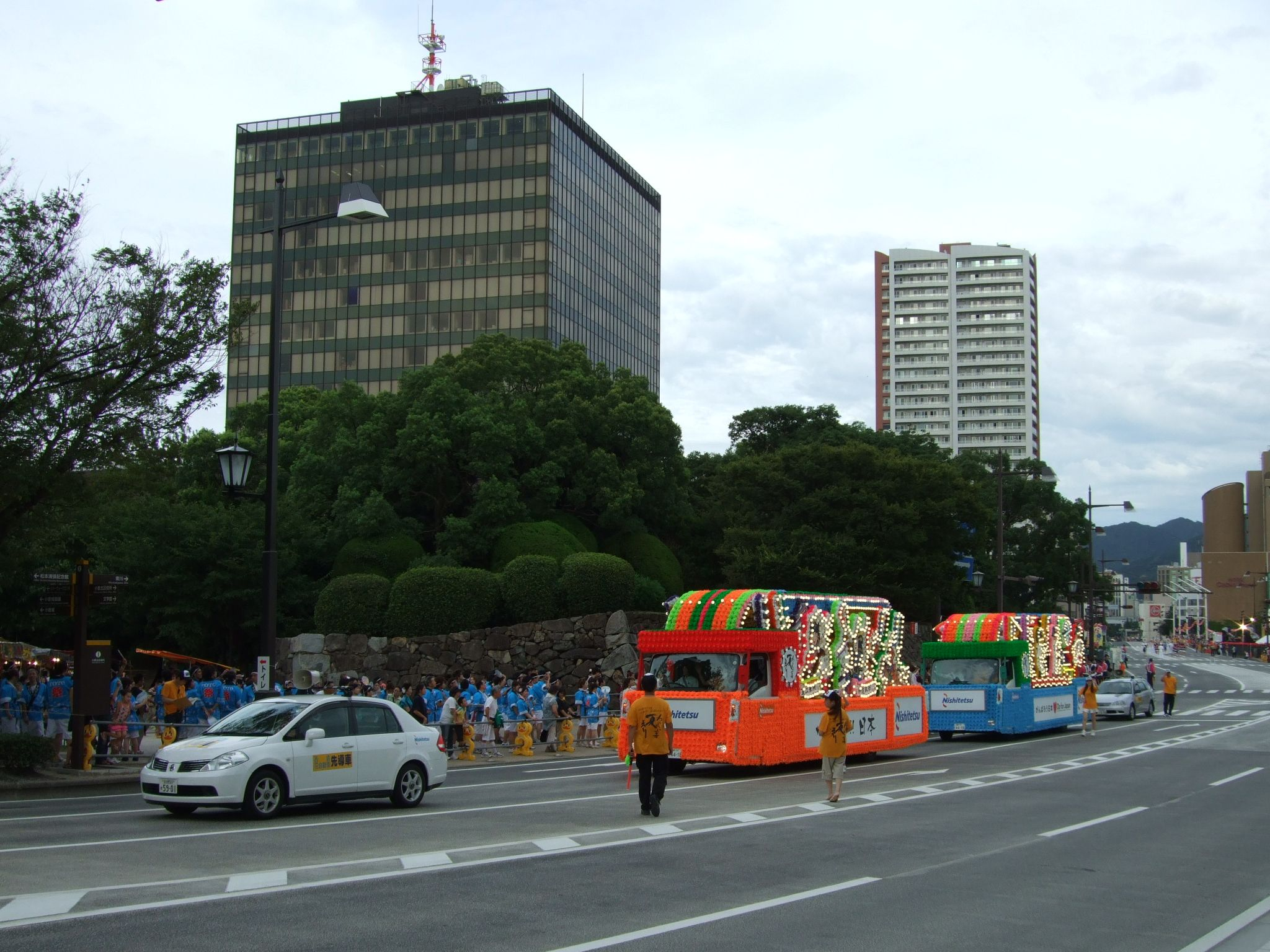 Decorated truck on Wasshoi Hyakuman Natsumatsuri